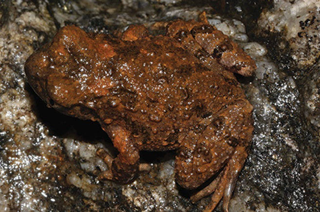 crop of File:Leptobrachella yunkaiensis (10.3897-zookeys.776.22925) Figure 3.jpg